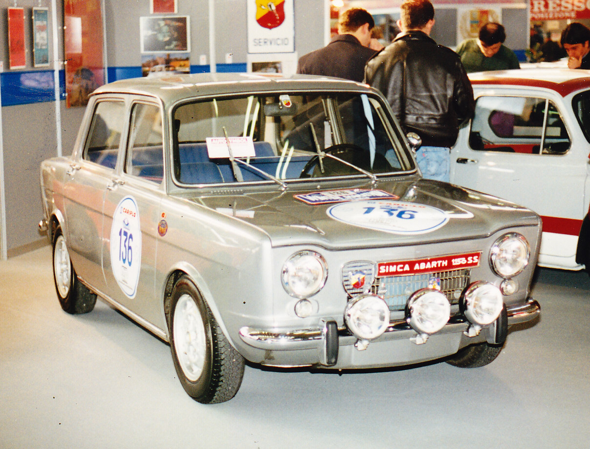 Subject: Simca 1150 Abarth Date:January 30th, 1993 Event: Autostory Place/Country: Genoa, Italy I release all rights in the public domain.